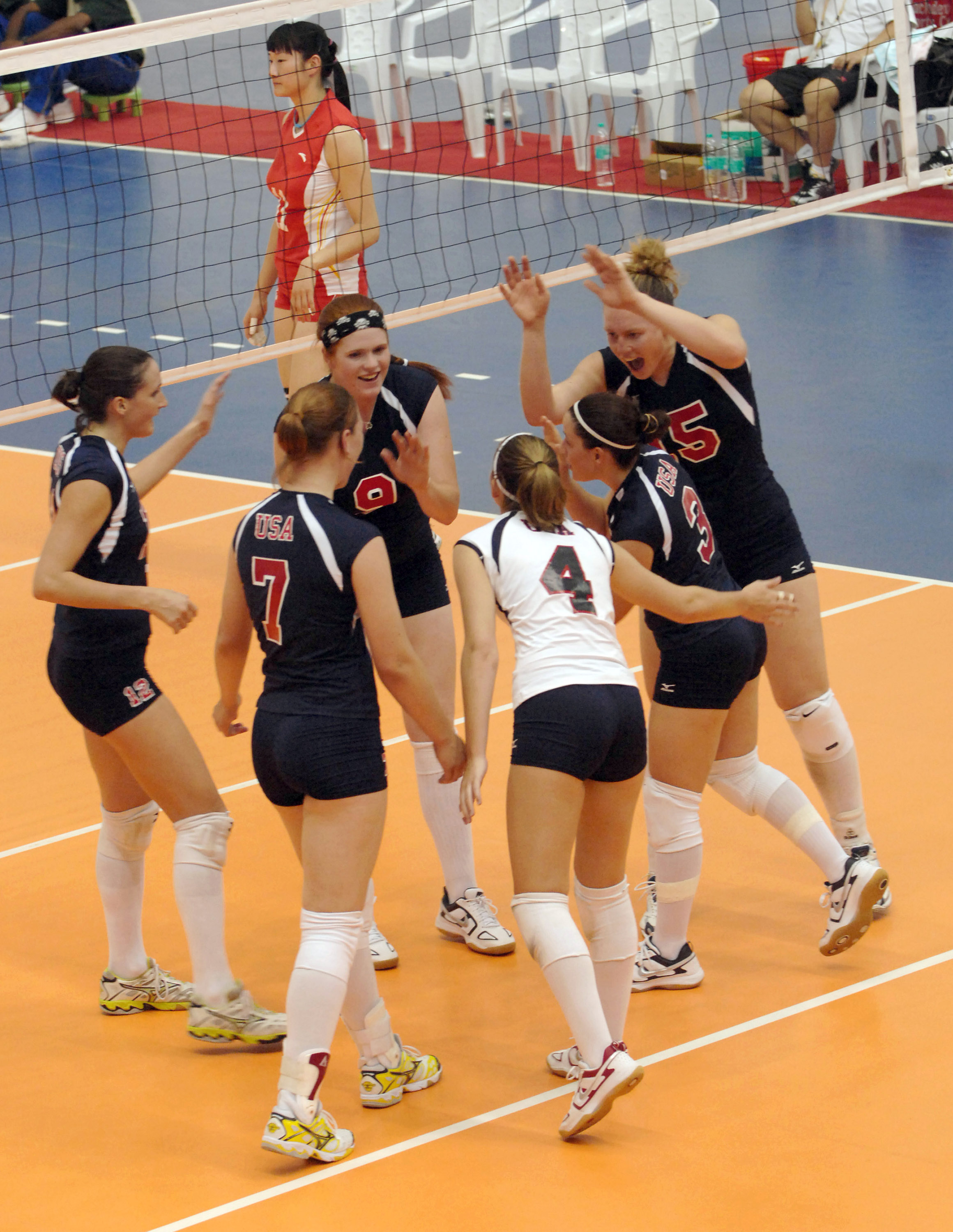 The U.S. women' volleyball team celebrates a point during a match Oct. 14 against the Chinese team at the Military World Games in Hyderabad, India. The U.S. women fell to the Chinese team in three games, 25-15, 25-11, 25-7. The Conseil Internationale du Sport Militaire's Military World Games event is the largest international military Olympic-style event in the world. In this year's fourth edition of the Games, 103 countries and more than 5,000 athletes are competing Oct. 14 to 21 in boxing, diving, soccer, handball, judo, military pentathlon, parachuting, sailing, shooting, swimming, volleyball and track and field. The purpose of the Military World Games is to promote "friendship through sport." (U.S. Air Force photo/Tech. Sgt. Jeffrey A. Wolfe)